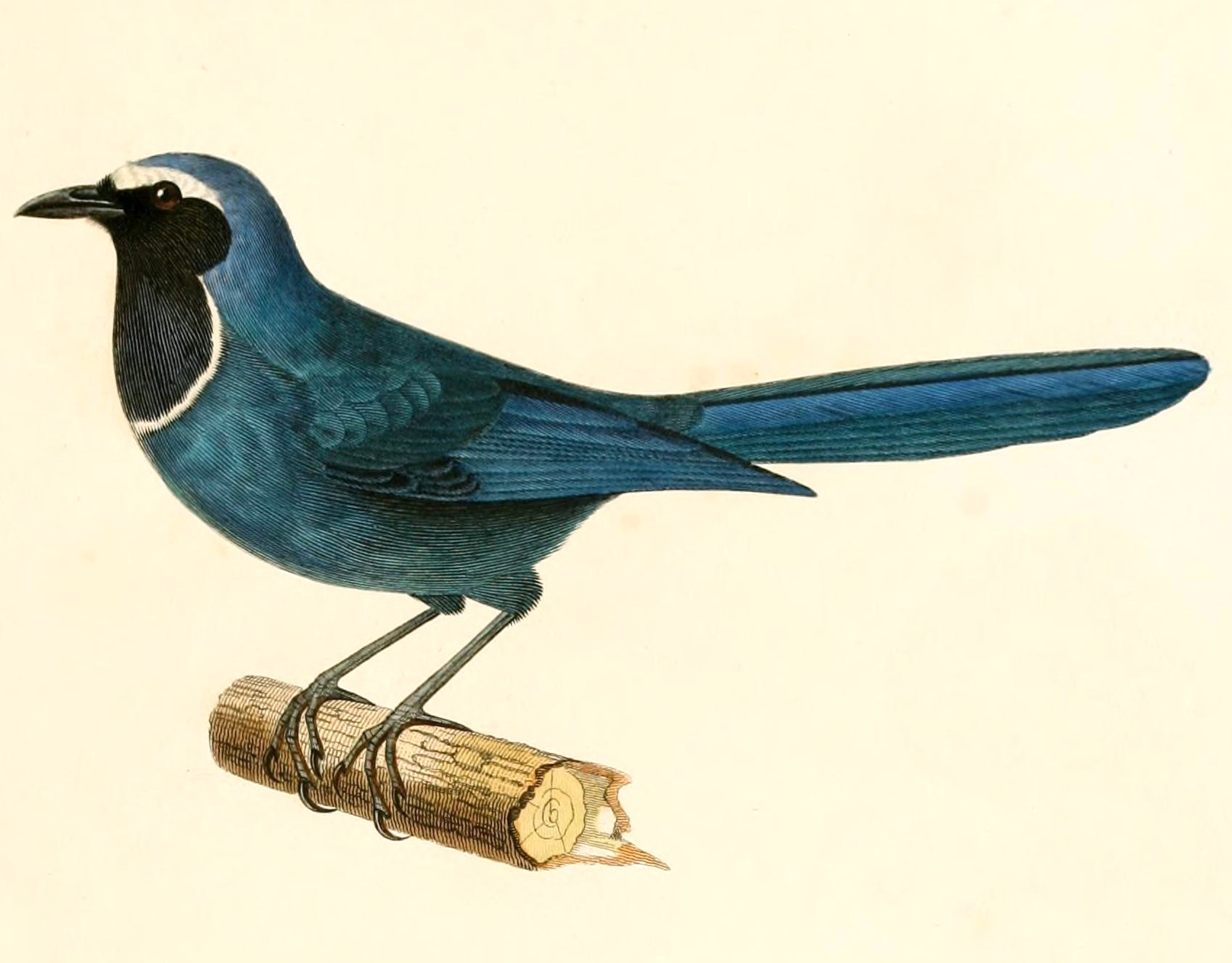 « Garrulus viridicyanus » = Cyanolyca viridicyanus (White-collared Jay)